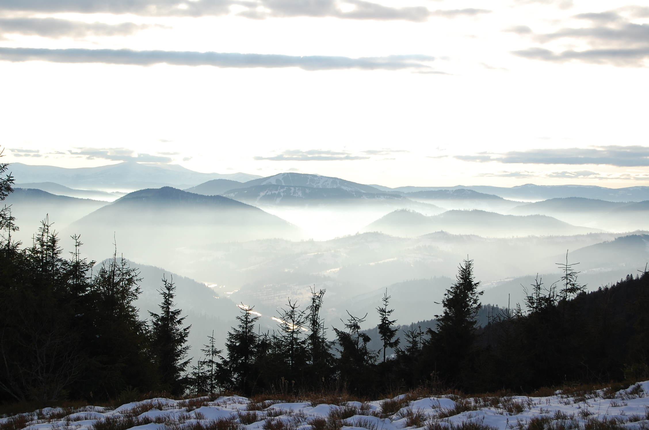 Carpathian mountains of western Ukraine.